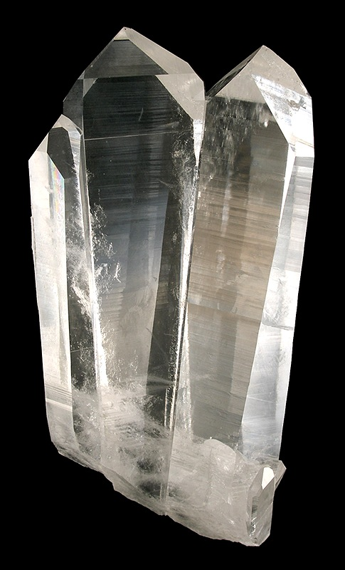 Quartz Locality: McEarl Pocket, Coleman Mine, Hot Springs, Garland County, Arkansas Size: large cabinet, 24 x 12.4 x 8.3 cm (over 10 inches!) Quartz A really dramatic spray from this most famous of pockets. Few Arkansas quartz pockets are any different enough from others to be remembered by name, but this pocket of the mid-1980s IS such a find, with an optical clarity and a great lustre that is just a touch above the norm from here. Note also that the clarity goes deeper down to the base, whereas most larger quartz crystals from here get cloudy as the bottom nears. In person, the difference between a McEarl piece and a "normal" but very high quality Arkansas quartz is discernible. This splayed cluster of large crystals is exceptional for the size and, remarkably, without any major damage (just a few VERY trivial rear-tip dings that are present, but you don't see from afar). This specimen came from a major private collection assembled over decades, in Arkansas, that was dispersed around the year 2000.